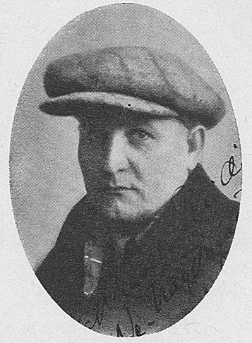 Finnish theatre personality, early 1930s.